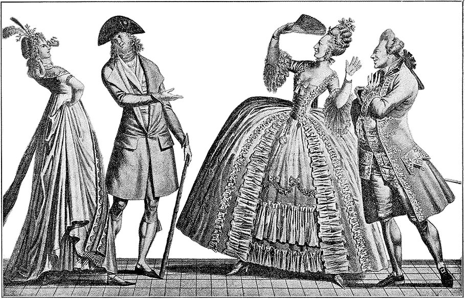 A 1793 contrast between French fashions of 1793 and ca. 1778, showing the large style changes which had occurred in just 15 years. The couple on the left, dressed in bleeding-edge up-to-the moment styles of 1793, is saying "AH! QUELLE ANTIQUITÉ!!!"; while the couple on the right, dressed in formal court styles of ca. 1778, is exclaiming "OH! QUELLE FOLLIE QUE LA NOUVEAUTÉ....." (For a contemporary 1778 color depiction of an outfit similar to what the woman on the right is wearing, see Image:1778-jeune-dame-de-qualite-en-grande-robe.jpg.) From Vernet's "Incroyables et Merveilleuses" series, 1793. This is a relatively low-quality scan. For a better scan of the left half, see Image:1793-1778-contrast-left.png and for a better scan of the right half, see Image:1793-1778-contrast-right.jpg .